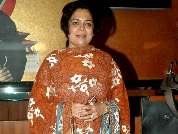 Reema Lagoo at Bas ek Tamanna film photo shoot in Fun, Mumbai on 27th Aug 2011